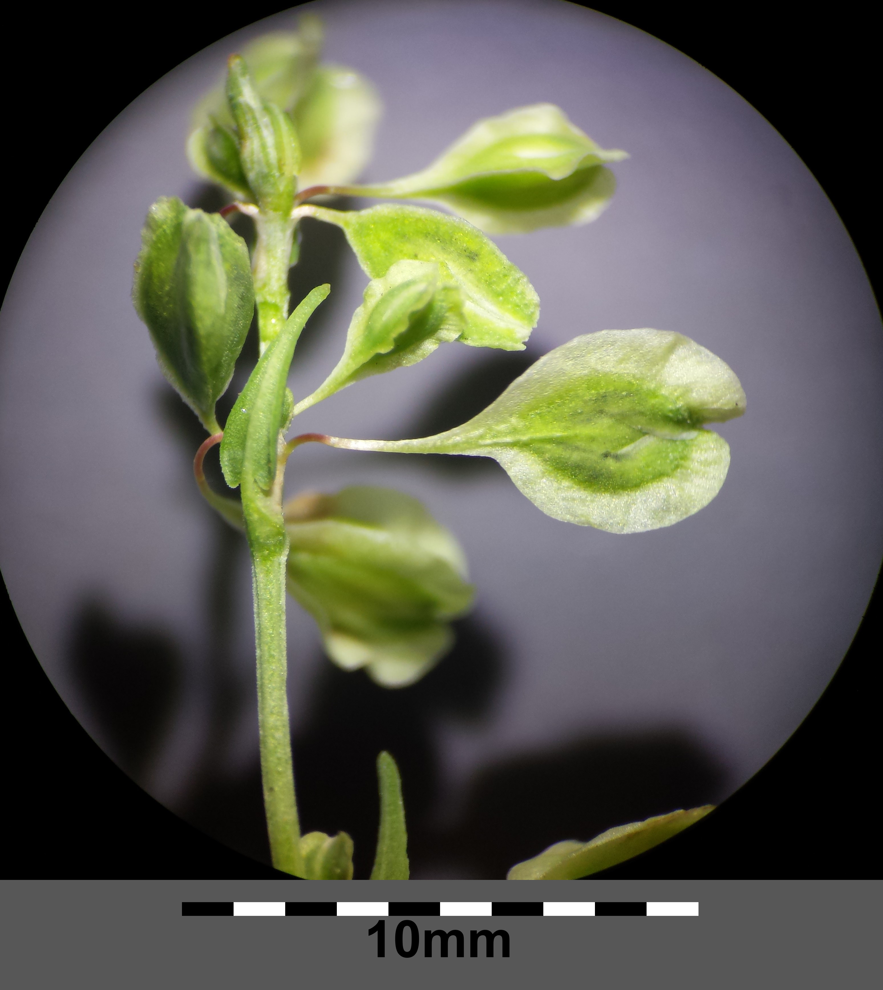 Fruits with perigone Taxonym: Fallopia dumetorum ss Fischer et al. EfÖLS 2008 ISBN 978-3-85474-187-9 Location: near Oberrohrbach, district Korneuburg, Lower Austria - ca. 200 m a.s.l. Habitat: shrubbery